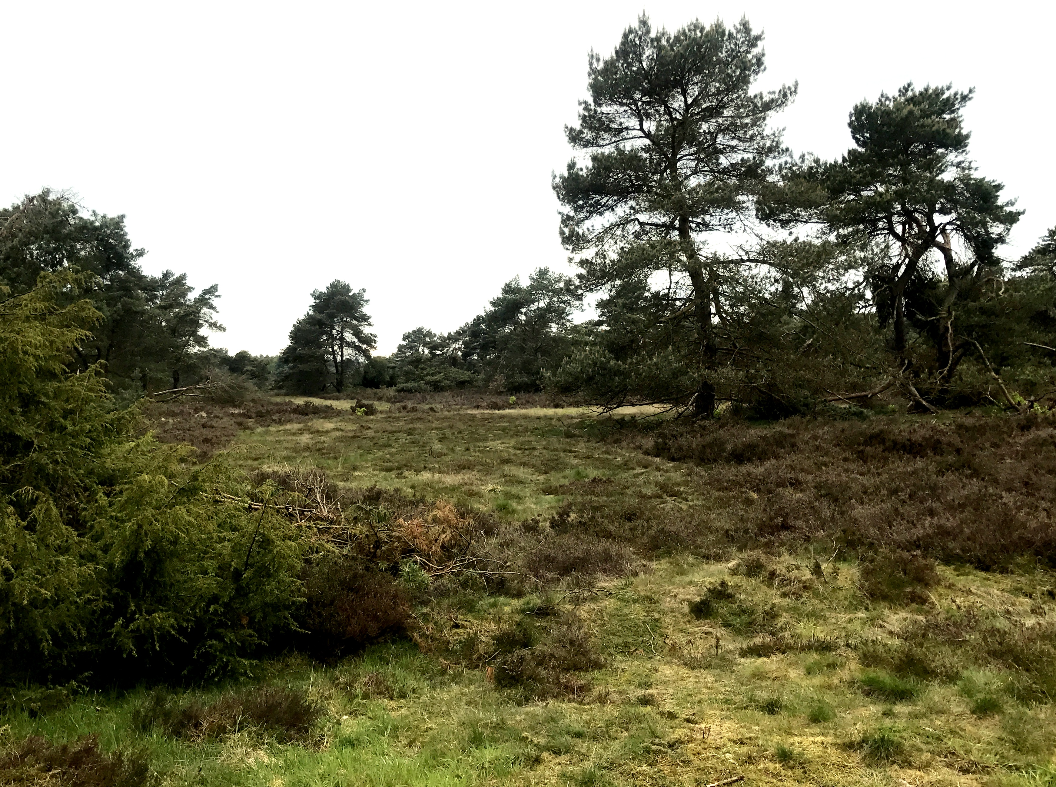 Itterbecker Heide. One of the little wonderful nature areas in a not so well known part of Germany. Mainly visited by Dutch, who live actually more close by than many Germans